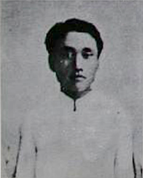 Yi Gwang-su, a Korean writer, poet, novelists, in 1920 Sanghai